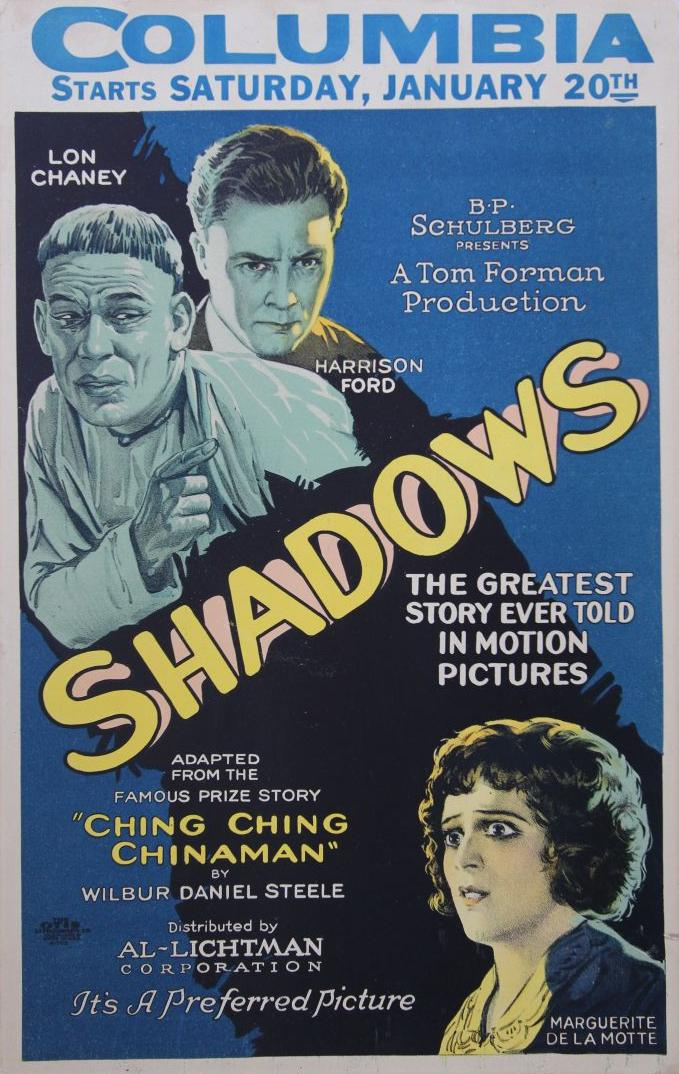 Lon Chaney, Harrison Ford & Marguerite De La Motte in Shadows - poster (original image cropped : see source)